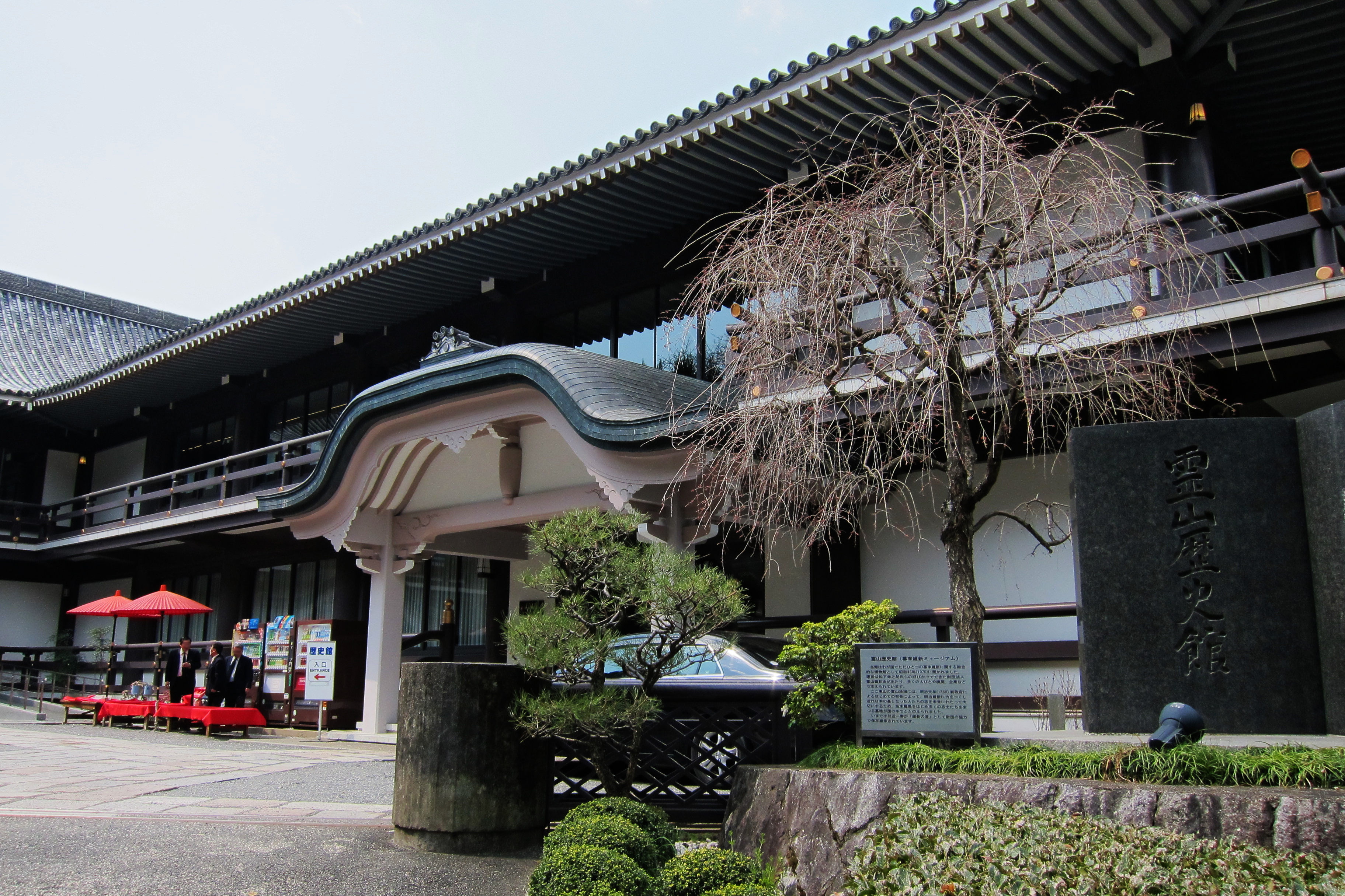 Ryozen Museum of History (霊山歴史館), in Kyoto, Kyoto Prefecture, Japan.